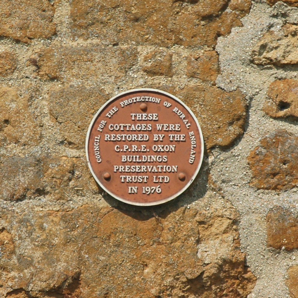 Hempton, Oxfordshire: CPRE plaque between Turret Thatch and Middle Corner Cottage commemorating restoration of the cottages in 1976.